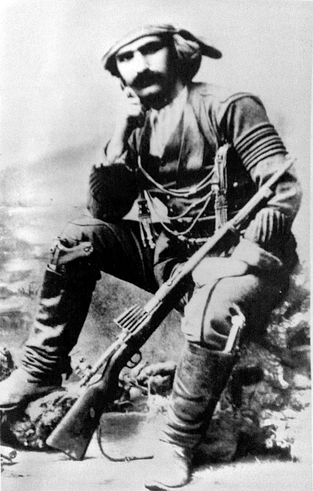 Greek partisan Vangelis Ioannidis, Gümüş maden, Pontus, circa 1916